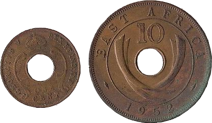 A Ten Cent and One Cent British East Africa piece from 1952(10) and 1924 (1).